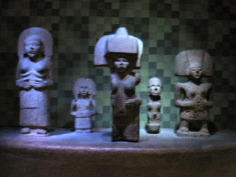 Description: Huastec Stone Sculpture - Source: own work - Location: American Museum of Natural History, New York - Author: self, User:Stavenn